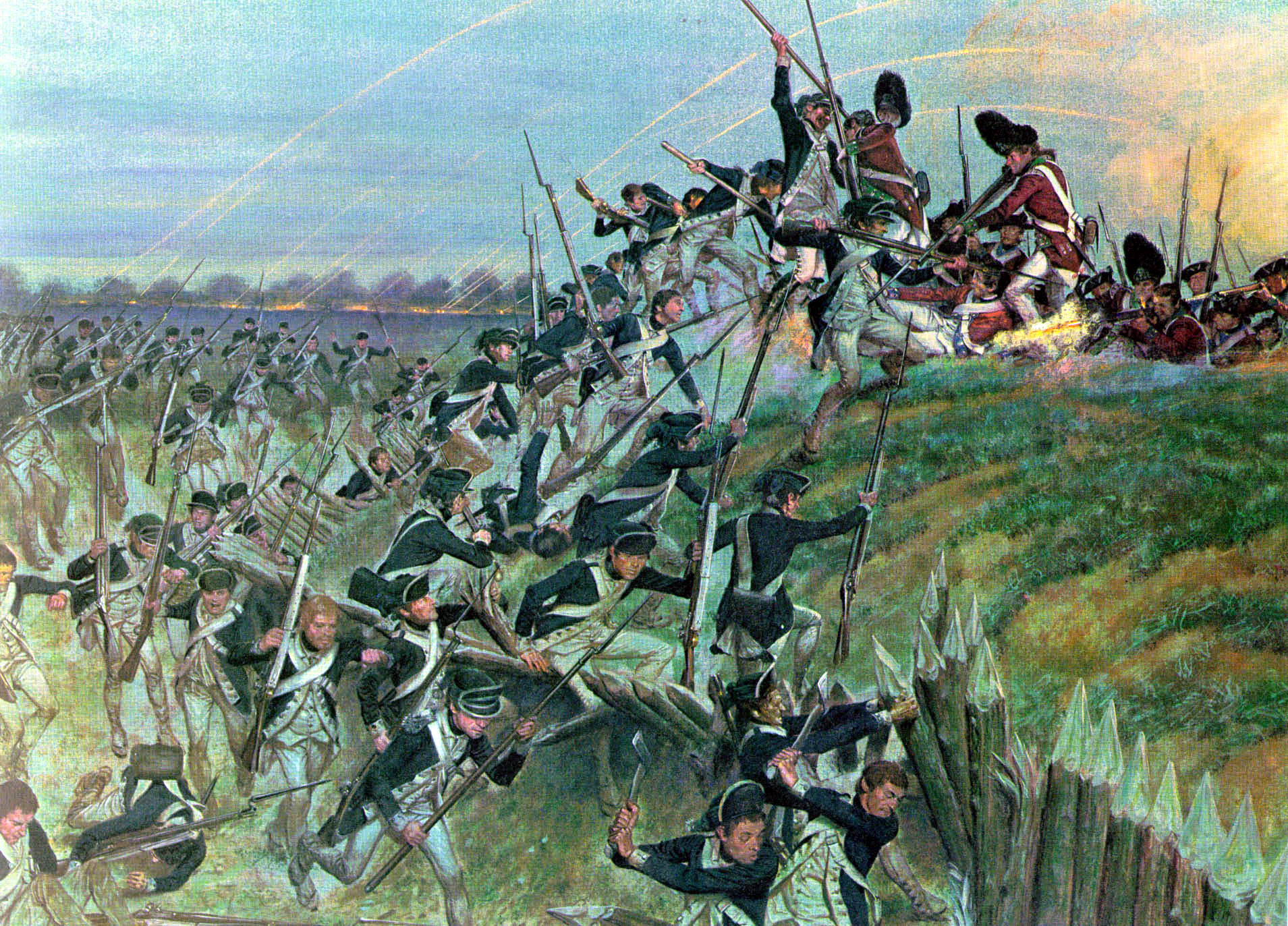 Assault on Redoubt 10 at Yorktown: In order to complete the second siege parallel in front of the British fortifications surrounding Yorktown, VA, General George Washington ordered the seizure of two British redoubts near the York River. The French were assigned the first, Redoubt 9, and the American Light Infantry under Lt. Col. Alexander Hamilton the second, Redoubt 10. On the evening of October 14, 1781, as covering fire of shot and shell arched overhead, the Americans and French moved forward. The Americans, with unloaded muskets and fixed bayonets, did not wait for sappers to clear away the abatis, as the French did, but climbed over and through the obstructions. Within ten minutes the garrison of Redoubt 10 was overwhelmed. The French also met with success but suffered heavier losses. (U.S. Army Center of Military History ).